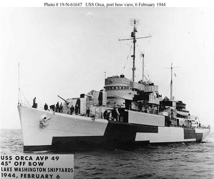 United States Navy seaplane tender USS Orca (AVP-49) off Houghton, Washington